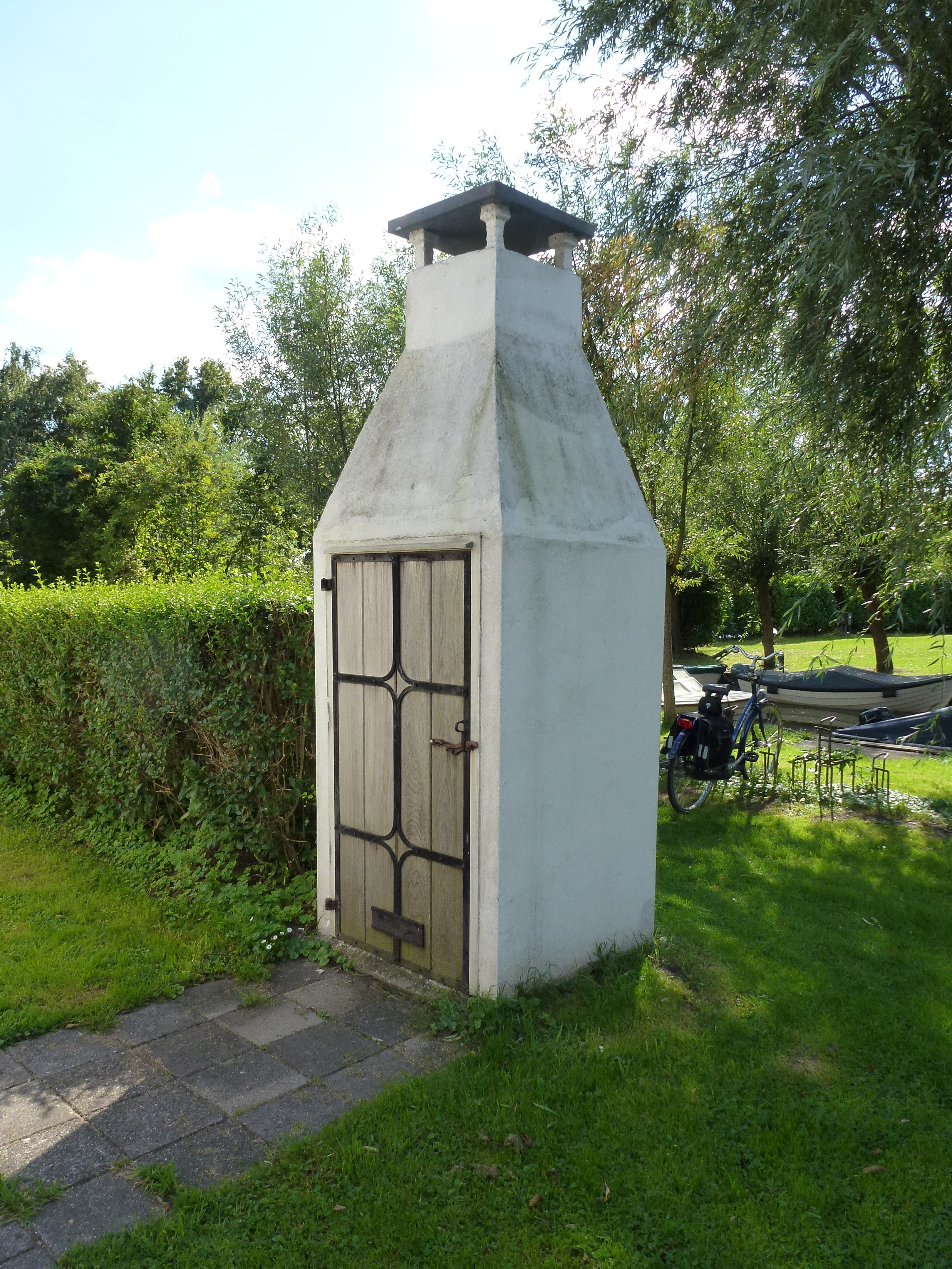 Snuiver. To smoke fish.